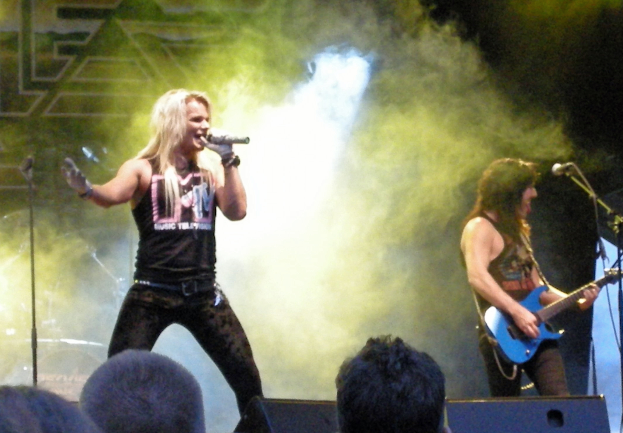 Finnish glam metal band Reckless Love at Skogsröjet 2012